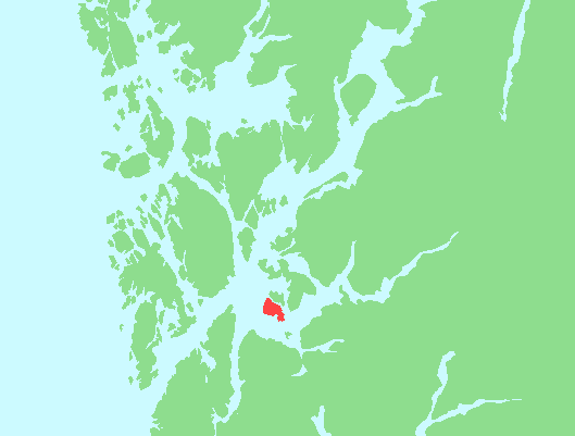 Locator map of Borgundøy, Hordaland, Norway